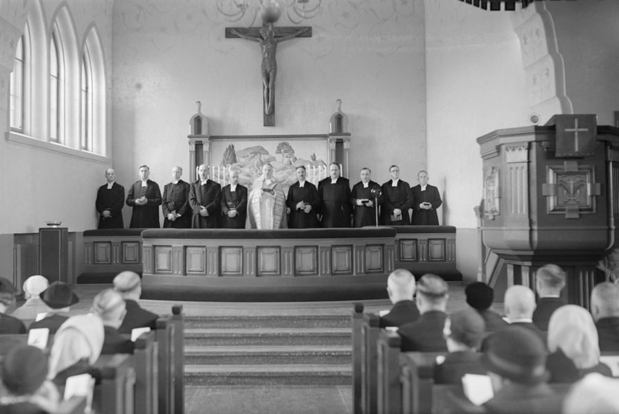 The church of Myllykoski is consecrated by bishop Yrjö Loimaranta. He is assisted by ten ministers.